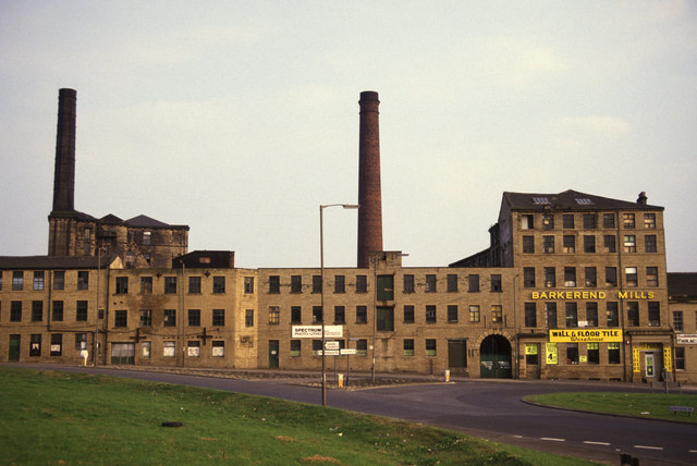 Barkerend Mills My mate the late George Cooper wanted to photograph this complex and I couldn't stand idly by while he waved a camera. Little did I realise that his pictures would end up in the National Monuments Record at Swindon (as a bequest) and mine would be on Geograph (I didn't even own a computer when I took this). Anyway, to the picture. Barkerend Mills. Established 1815 as steam powered worsted spinning mill. Early buildings included a four storey mill, eight bays with internal engine house. The street front buildings are warehouses with an arched gateway into the mill complex behind. More mills were added in 1852 and the last block was that on the left with chimney. Designed by W Metcalf of Bradford in c1870, six storeys, 17 bays, fireproof. Internal engine house with original shaft drive and later external stone rope race. The c1870 mill stands but has lost its chimney. The rest seems to have been demolished.